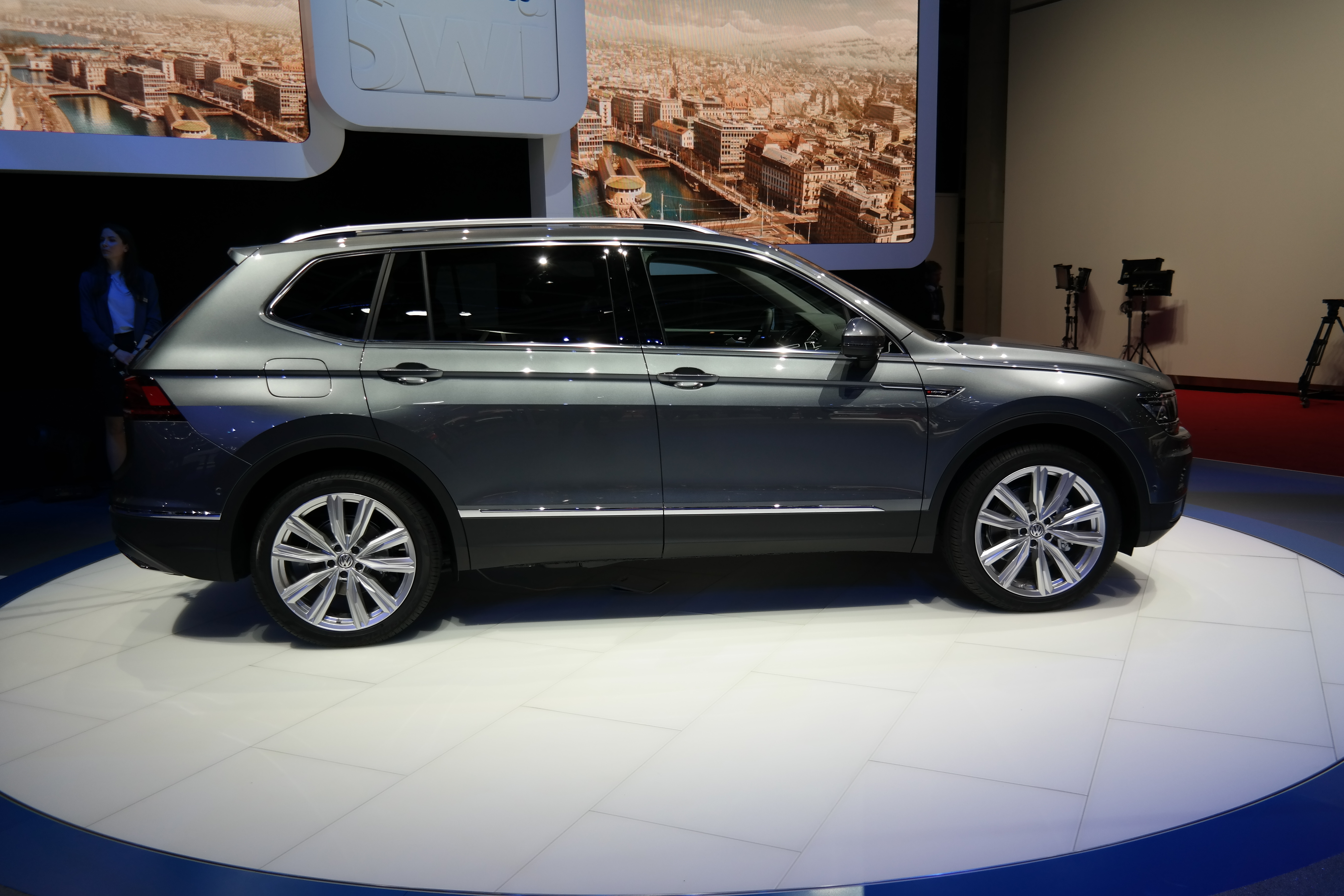 Geneva Motor Show 2017 (photo taken on the first press day)